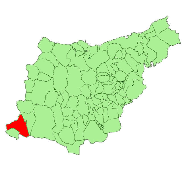 Eskoriatza municipality in the province of Guipuzcoa